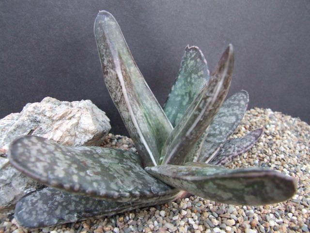 Gasteria polita - Photo from the Cok Grootscholten Collection - released with permission - Netherlands.